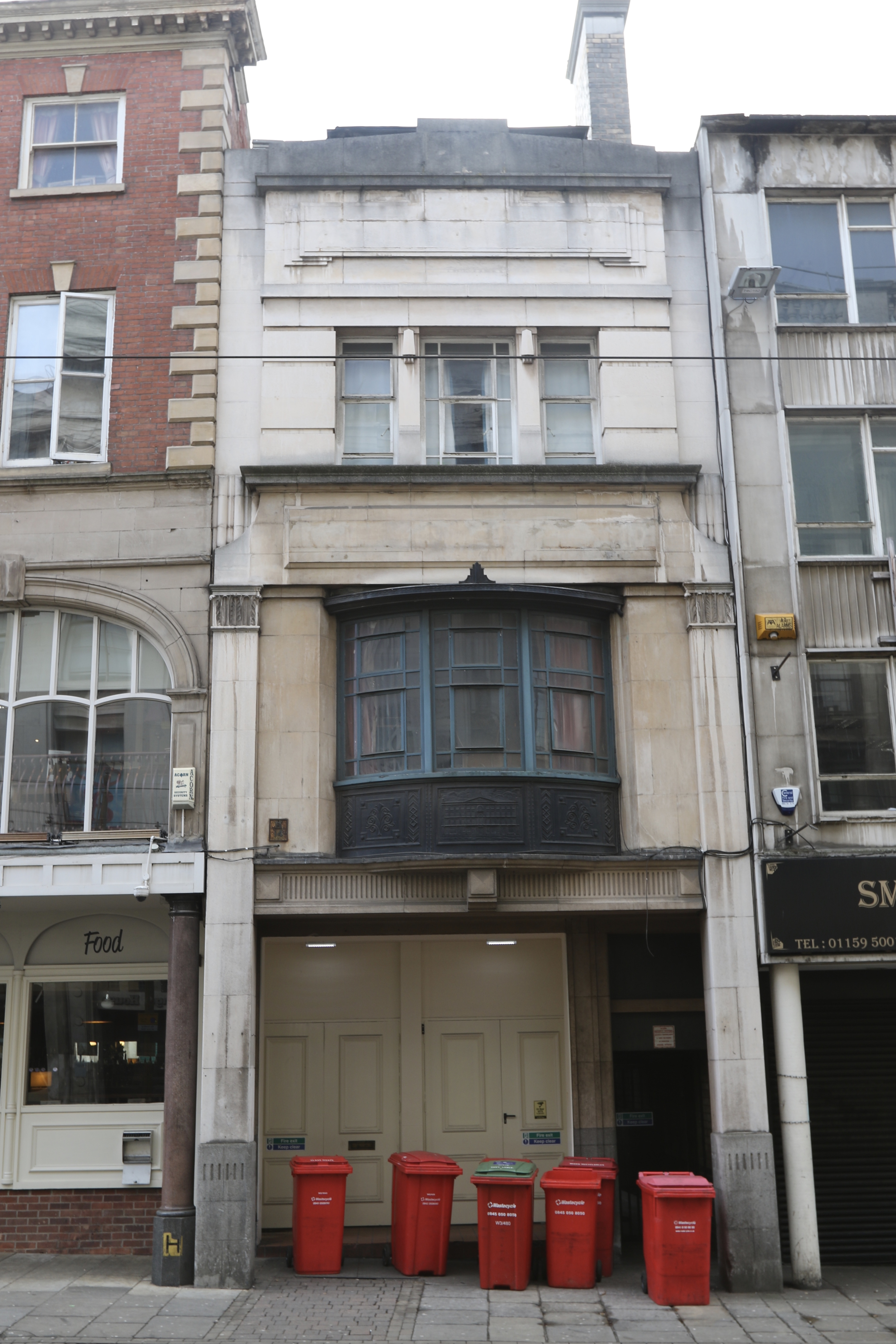 Built by William Beedham Starr in 1931